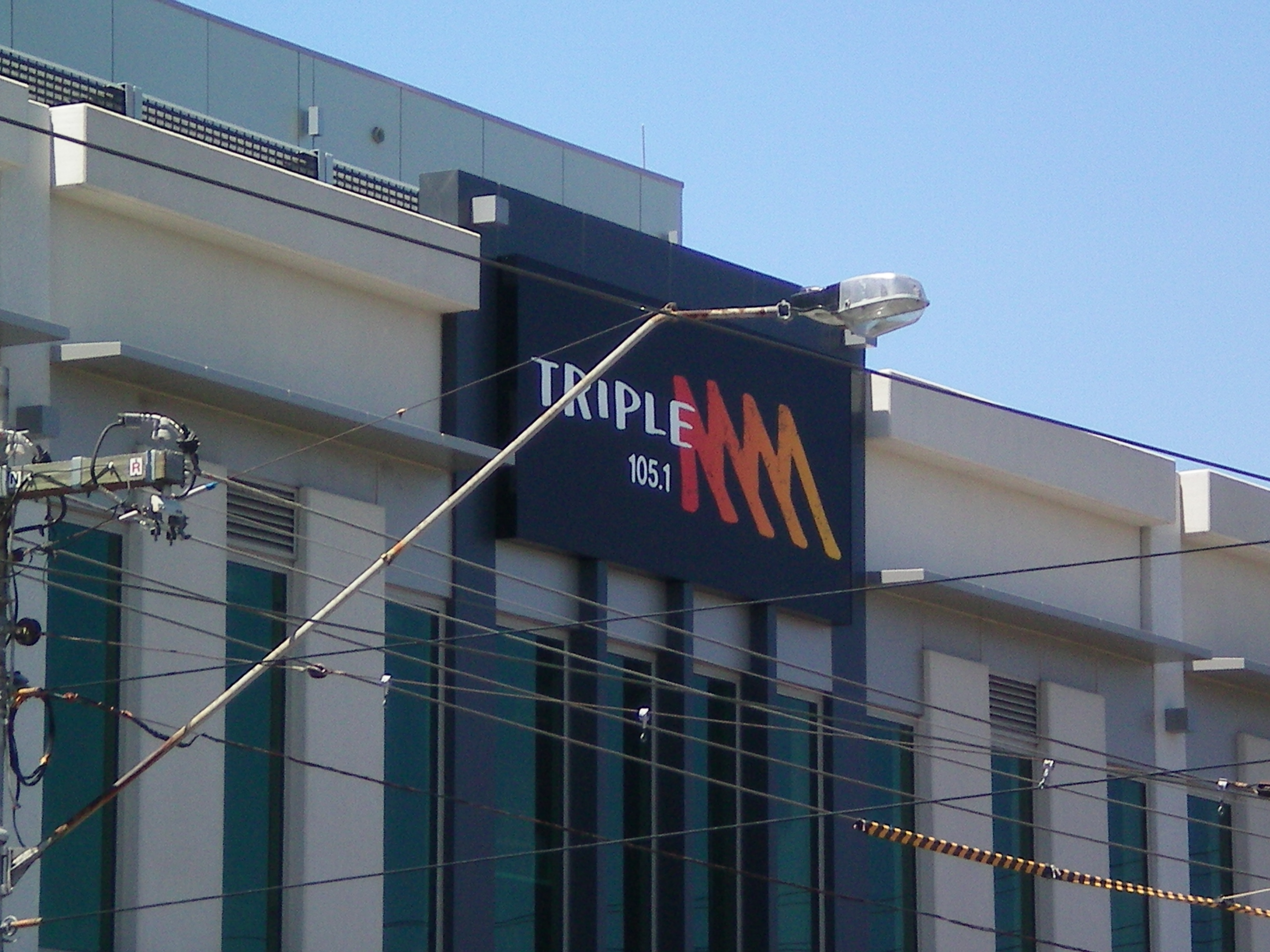 Picture of Triple M Melbourne Sign in South Melbourne new studios.